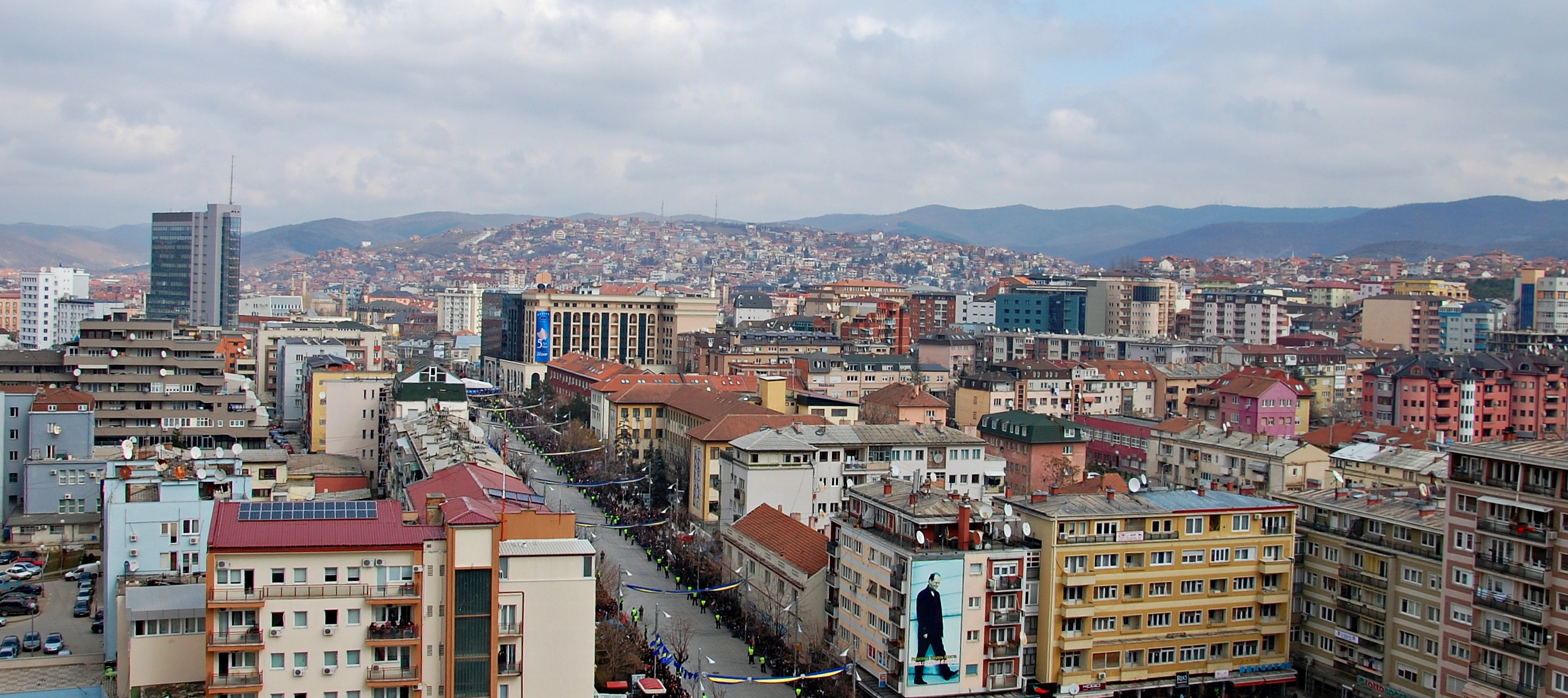 Prishtina